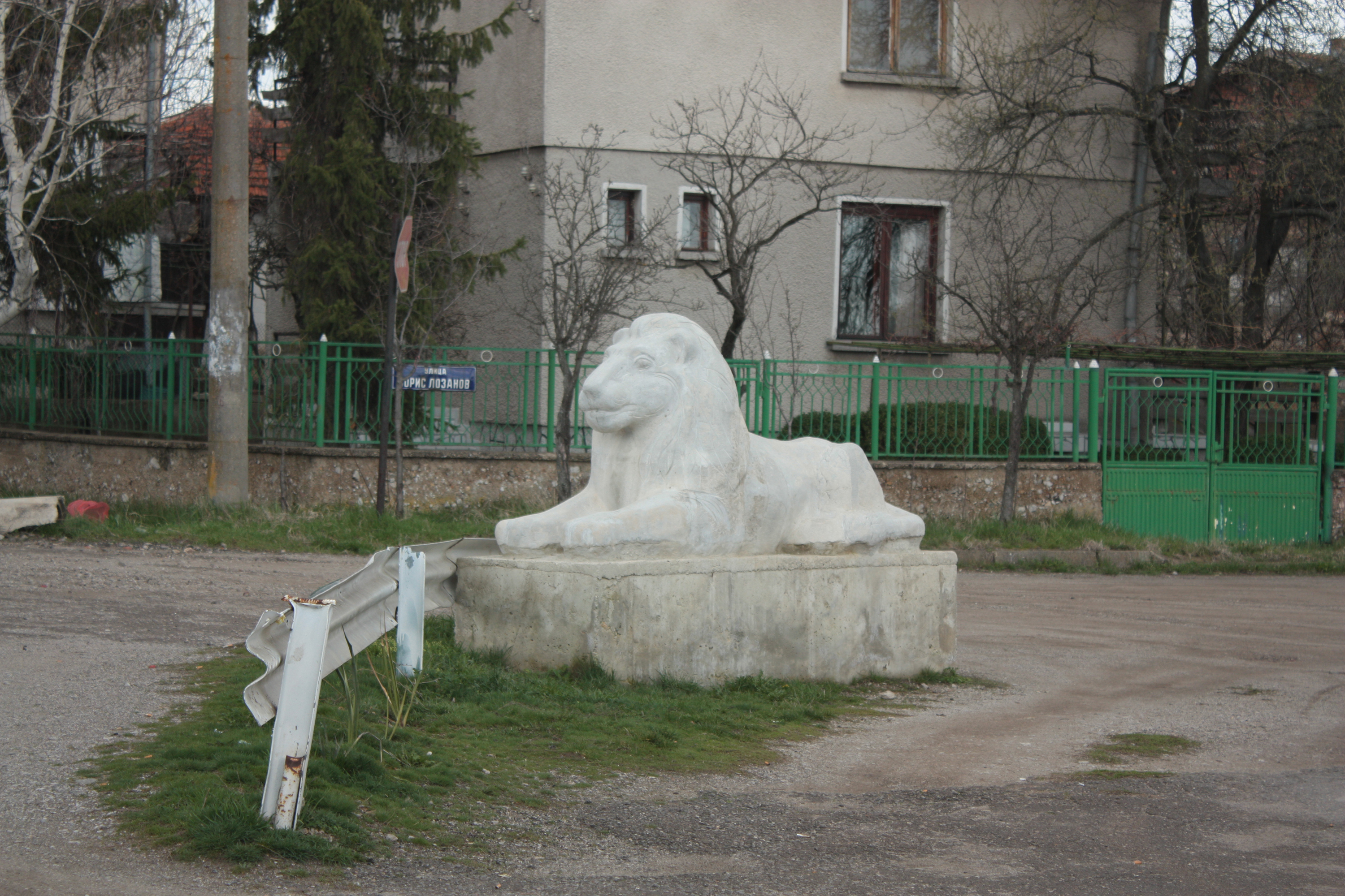 A lion statue in Bogyvtsi carved from the local white rocks